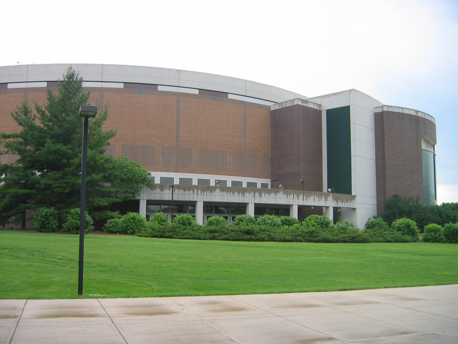 Basketball Facilities Michigan State Basketball Arena